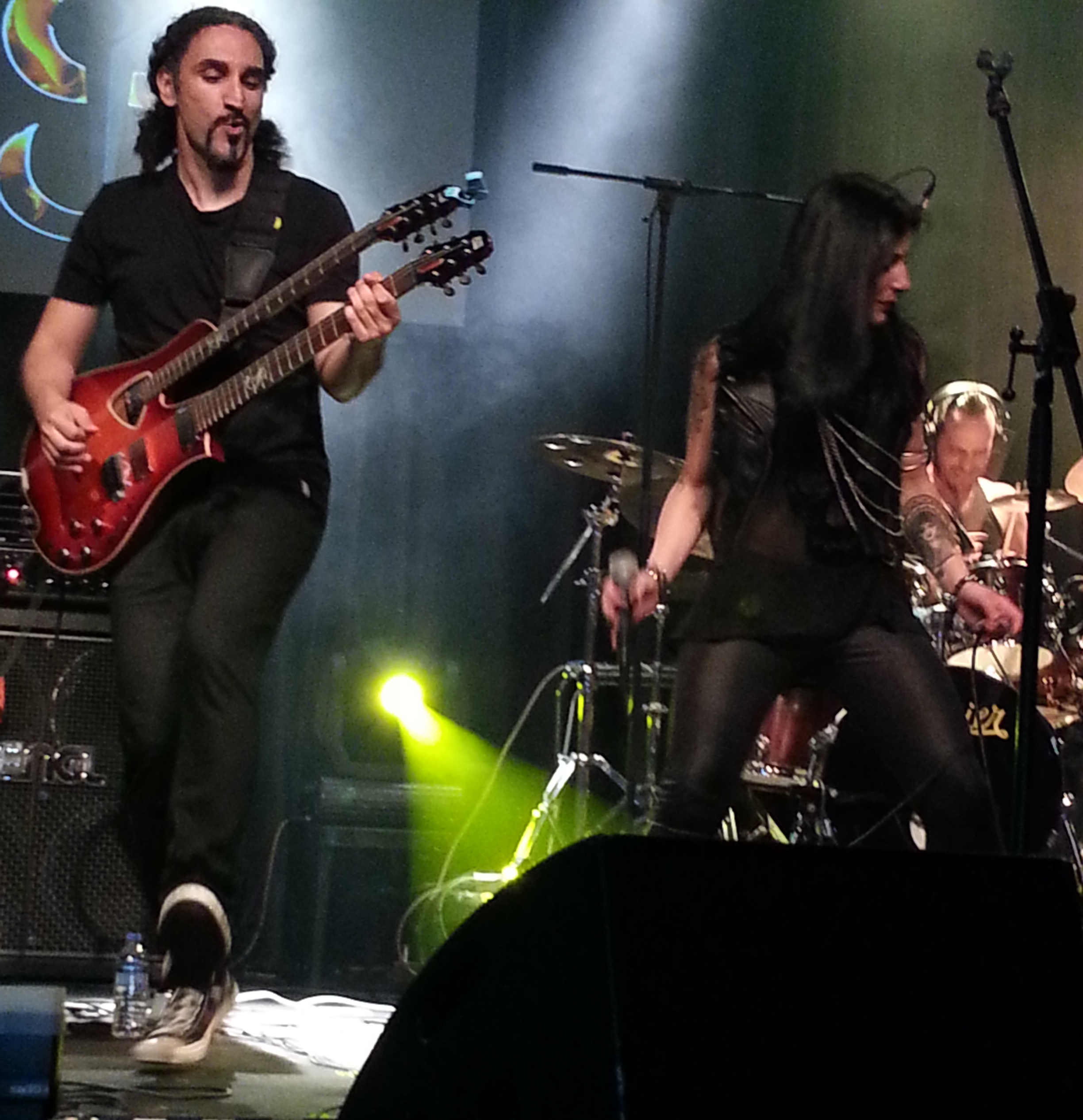 Yossi Sassi and Mariangela Demurtas in Sassi's concert in Israel